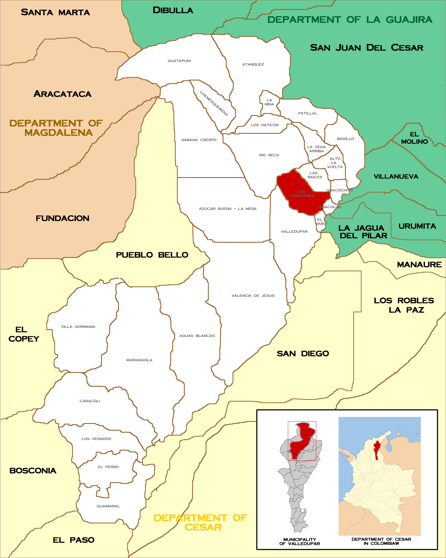 Map of Corregimientos of Valledupar, Los Corazones